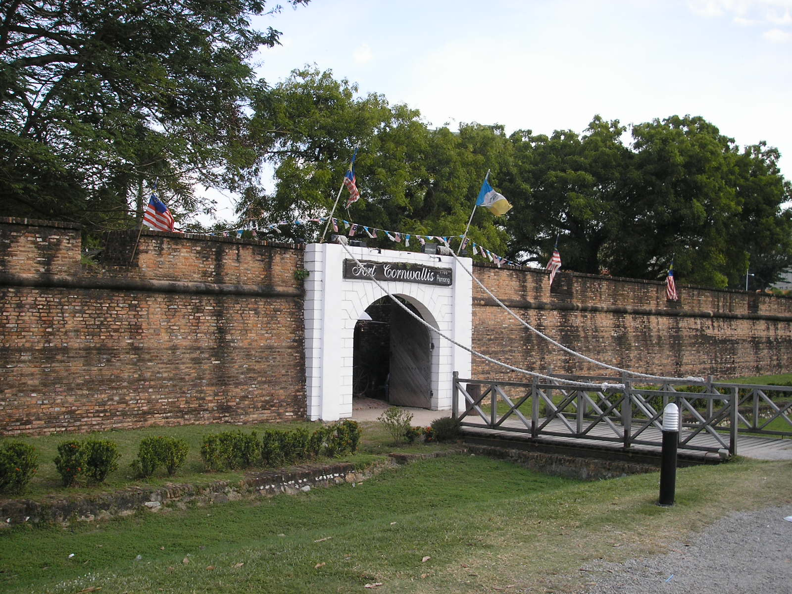 Image of the Fort Cornwallis in George Town, Penang.